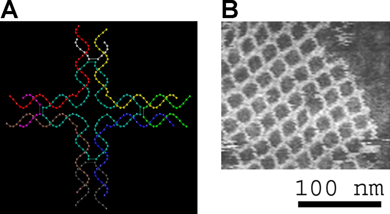 Self-Assembled DNA Nanostructures. (A) DNA “tile” structure consisting of four branched junctions oriented at 90° intervals. These tiles serve as the primary “building block” for the assembly of the DNA nanogrids shown in (B). Each tile consists of nine DNA oligonucleotides as shown. (B) An atomic force microscope image of a self-assembled DNA nanogrid. Individual DNA tiles self-assemble into a highly ordered periodic two-dimensional DNA nanogrid.